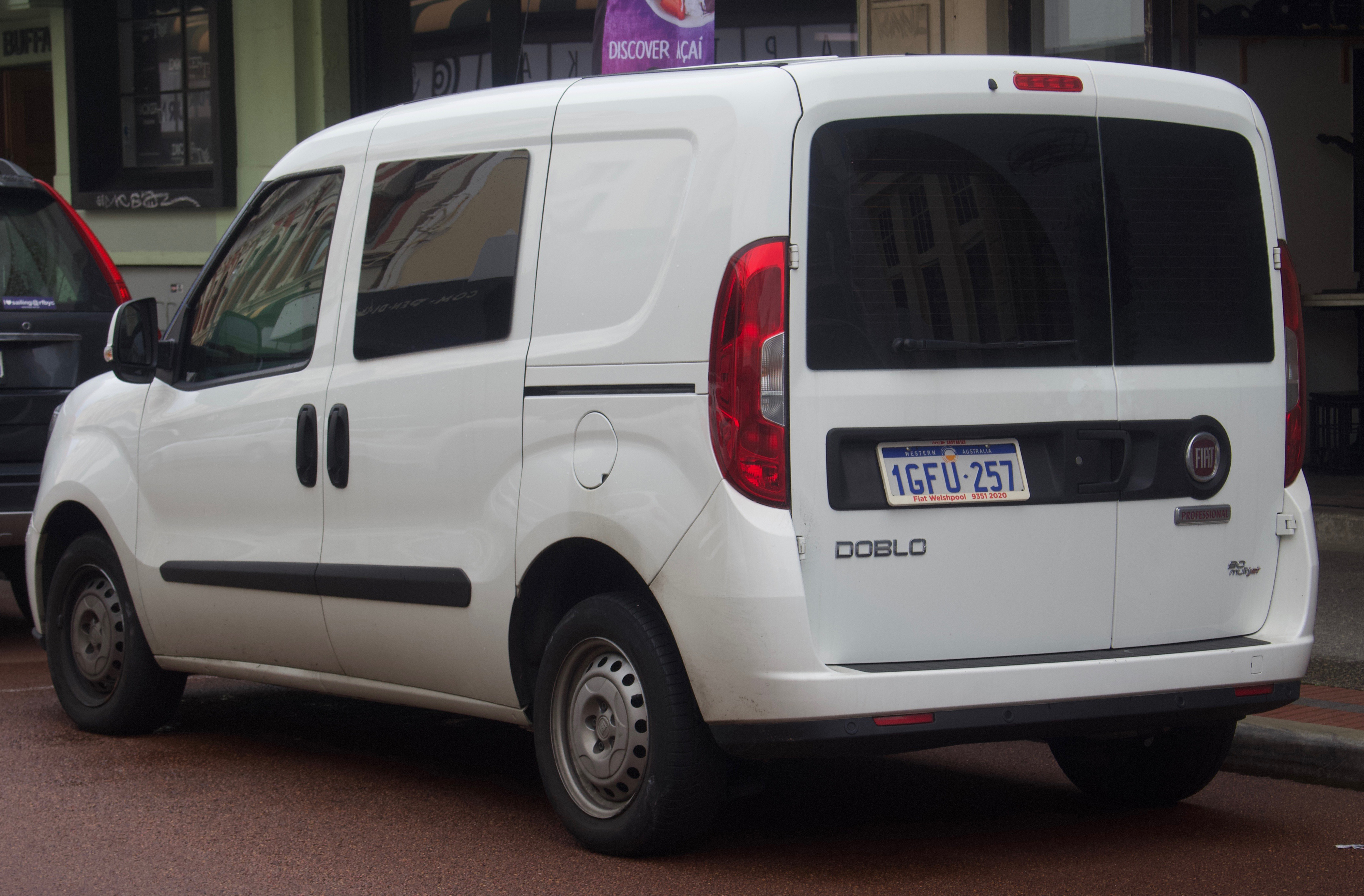 2017 Fiat Doblo (263 Series II) SWB van. Note that Carsales classifies it as a Series 1, but that would denote it to be a pre-facelift. Facelifts are generally classified as series 2 or similar. Photographed in Fremantle, Western Australia, Australia.